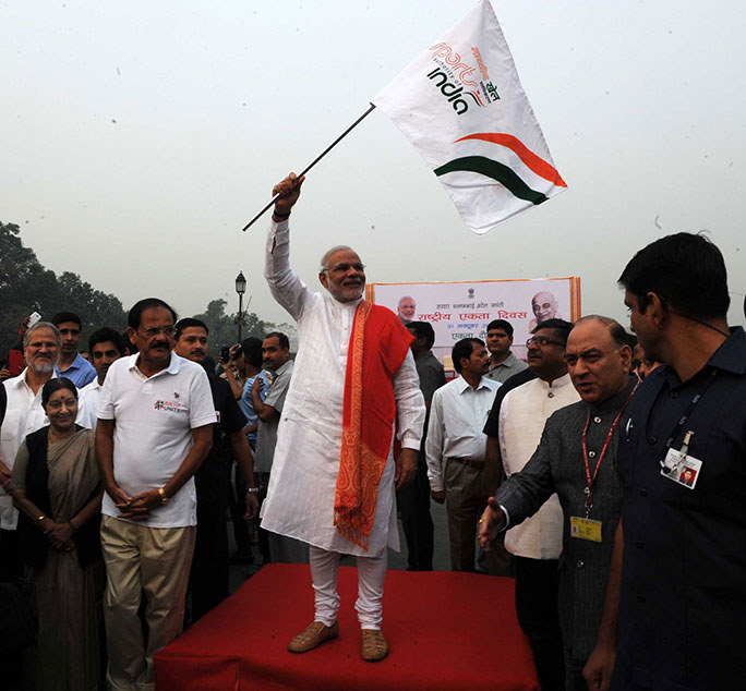 PM flags off, joins Run For Unity on Sardar Patel Jayanti